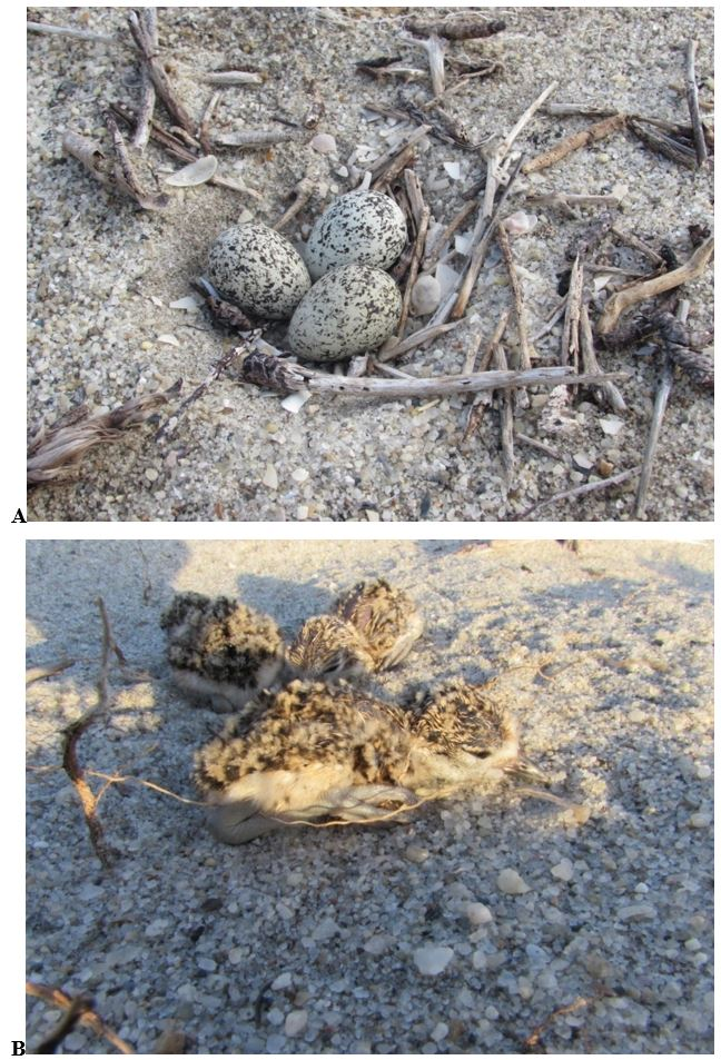 Nest of Charadrius wilsonia and chicks in the estuary of the Camurupim and Cardoso rivers, Cajueiro da Praia, Brazil.